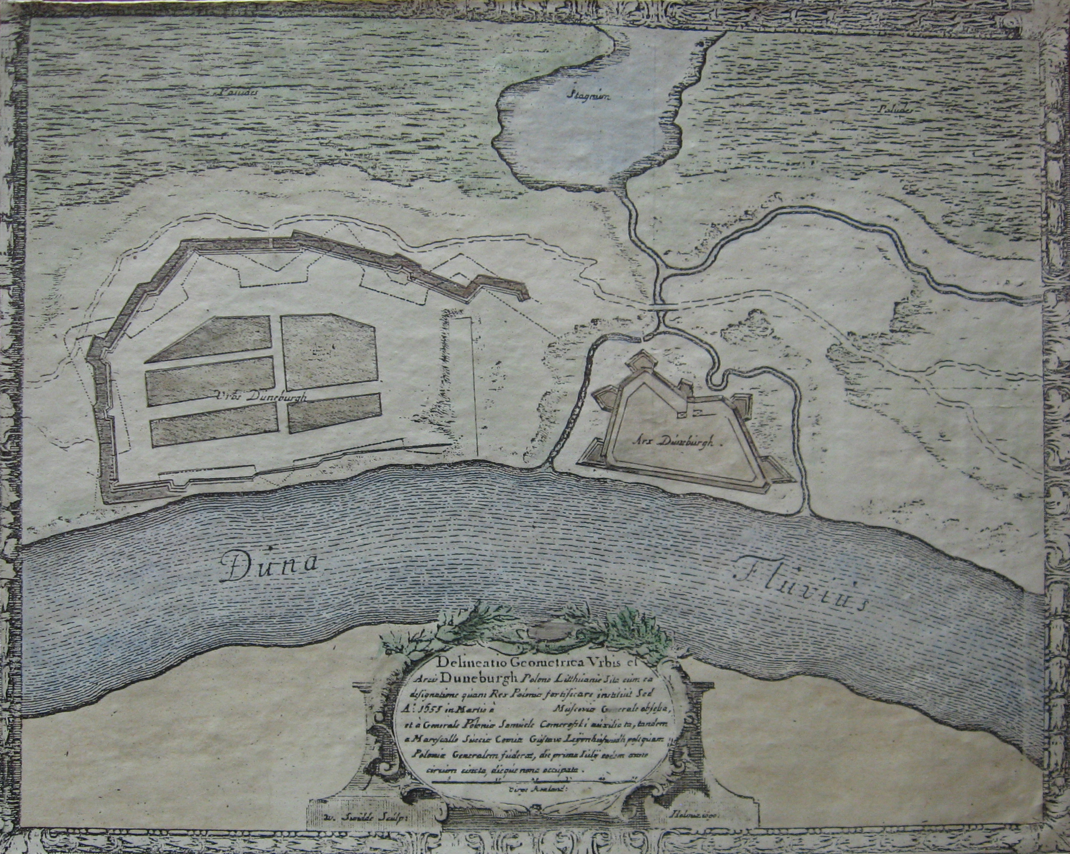 Plan of Daugavpils (Dyneburg, Dünaburg) in 1655